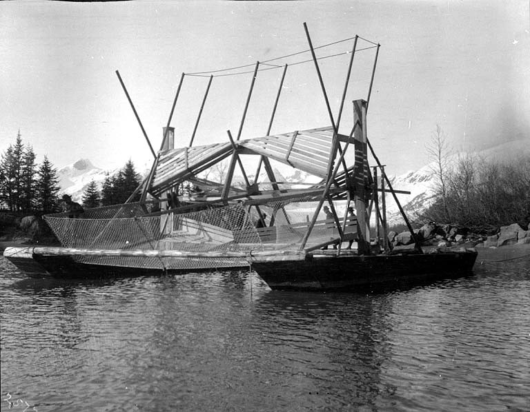 From John Cobb field notebook: Fish wheel on the Taku River, Alaska. May 5, 1908 Subjects (LCTGM): Fishing industry--Alaska; Fishing industry--Taku River Subjects (LCSH): Fishwheels--Alaska; Fishwheels--Taku River; Fisheries--Alaska; Fisheries--Taku River; Taku River (B.C. and Alaska)